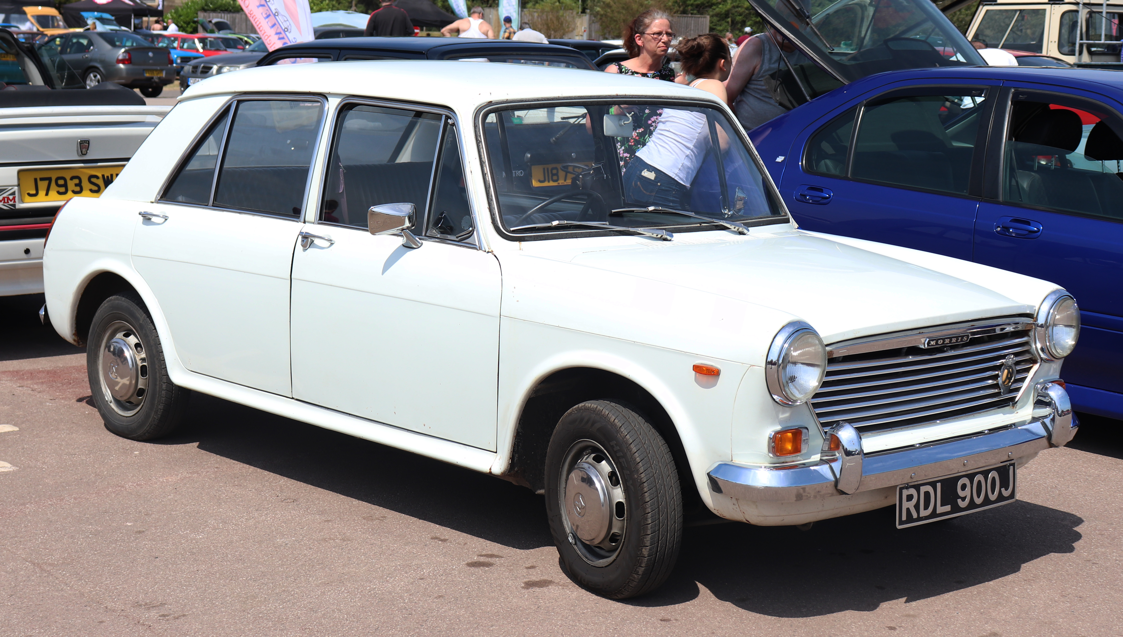 1970 Morris 1100 Mk 2 Taken at the British Motor Museum BMC & Leyland Show 2018, Gaydon